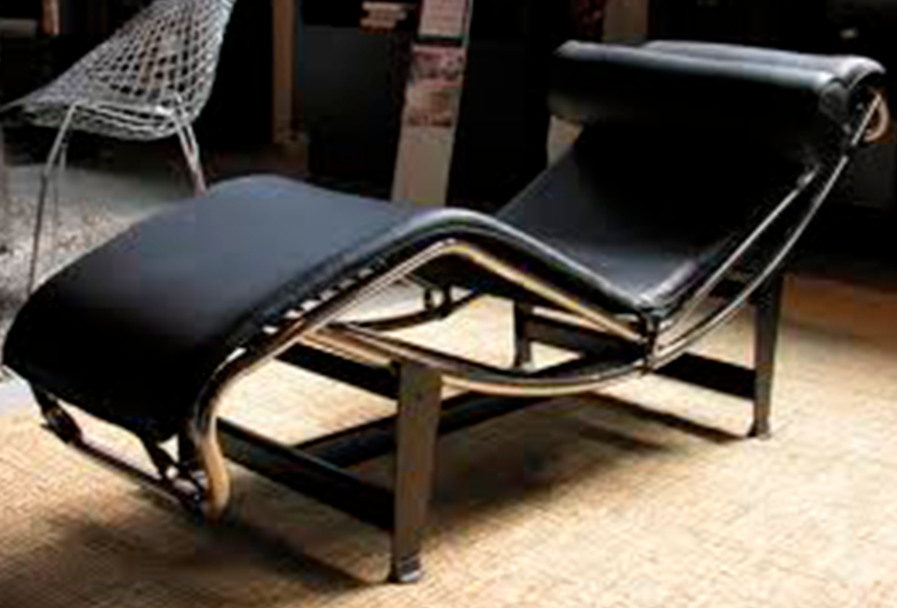 LC4, chaise longue, Le Corbusier, Pierre Jeanneret, Charlotte Perriand.